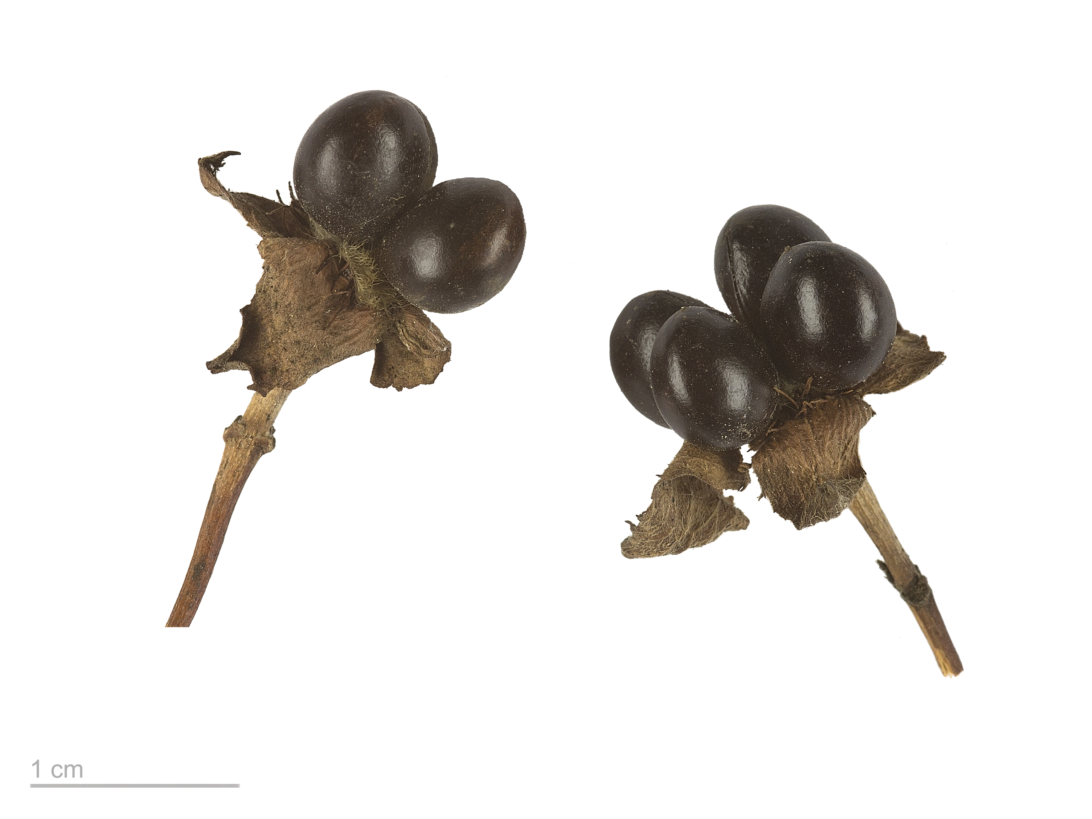 Jetbead, fruits and seeds